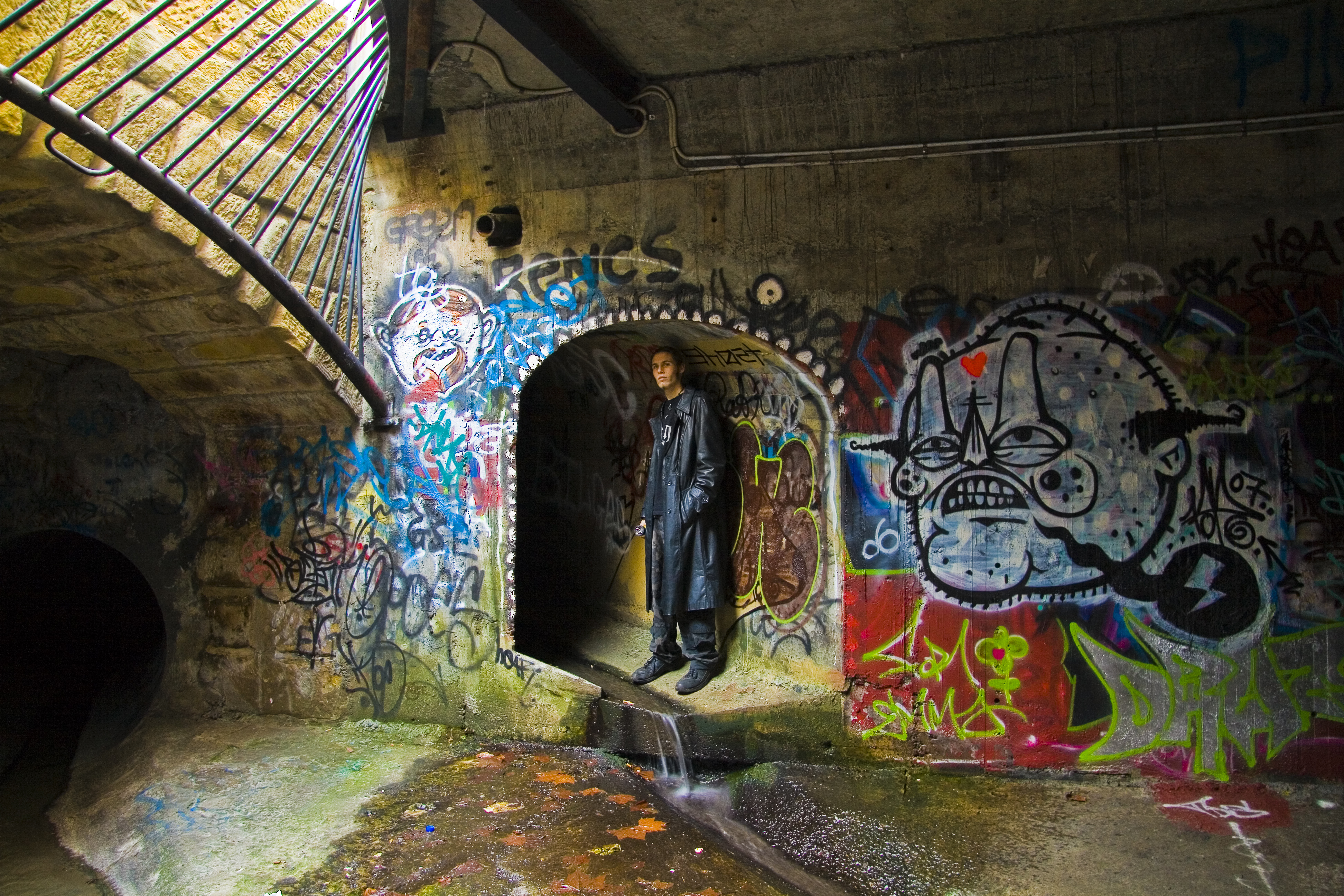 An urban explorer under Hobart, Tasmania